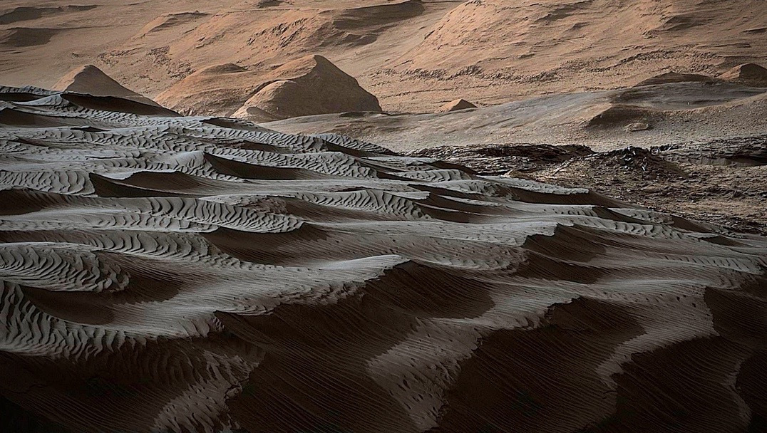 A new type of dune, called “wind-drag ripples,” found last year by the Curiosity rover in Gale Crater. The dune is a part of the Bagnold Dune Field, on the the northwestern flank of Mount Sharp. The images were taken in early morning, with the camera looking in the direction of the sun. This mosaic combining the images has been processed to brighten it and make the ripples more visible. The sand is very dark, both from the morning shadows and from the intrinsic darkness of the basaltic minerals that dominate its composition. The base of Mount Sharp can be seen beyond the dunes.